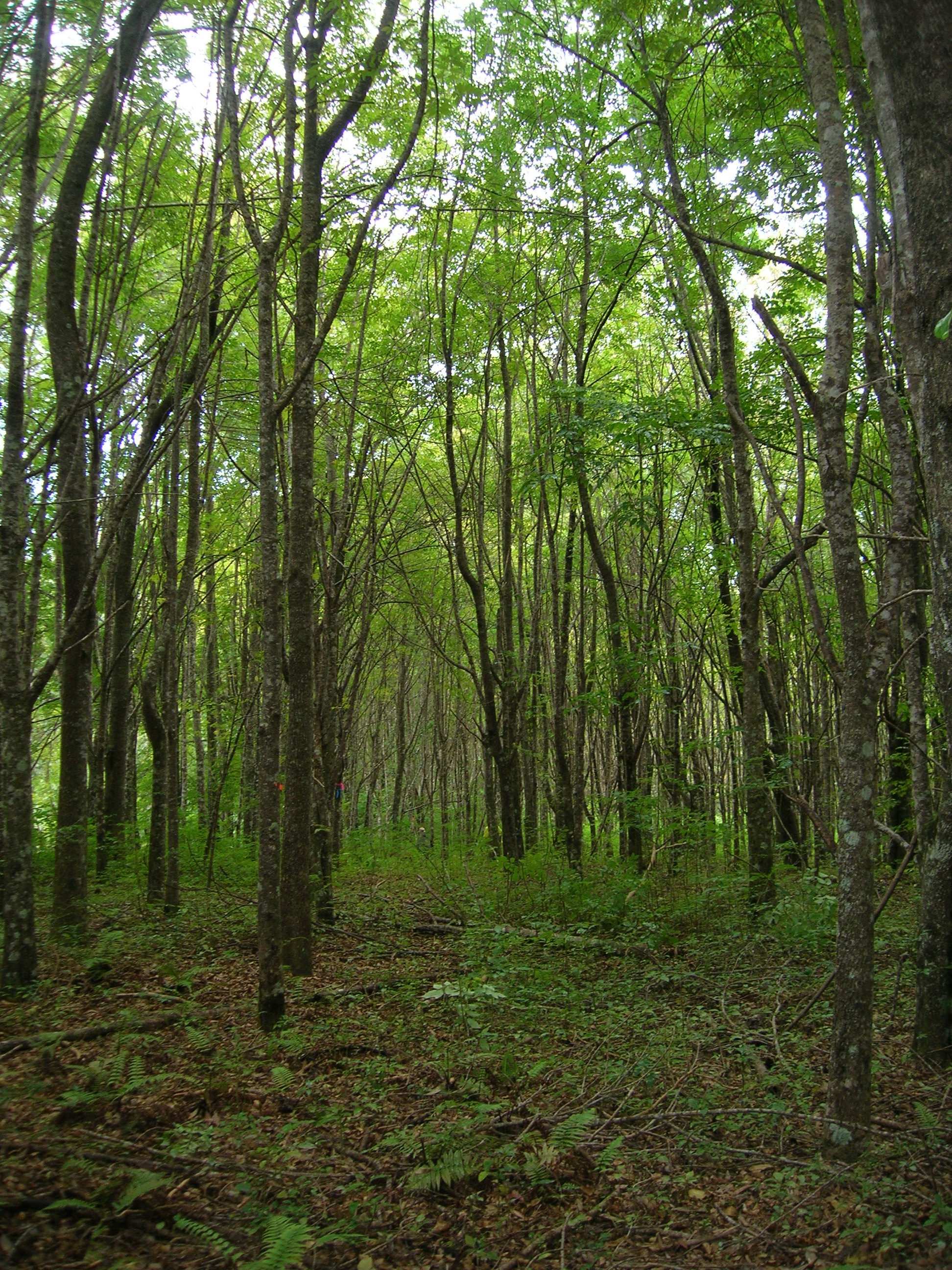 Fraxinus uhdei (trail building). Location: Maui, Makawao Forest Reserve